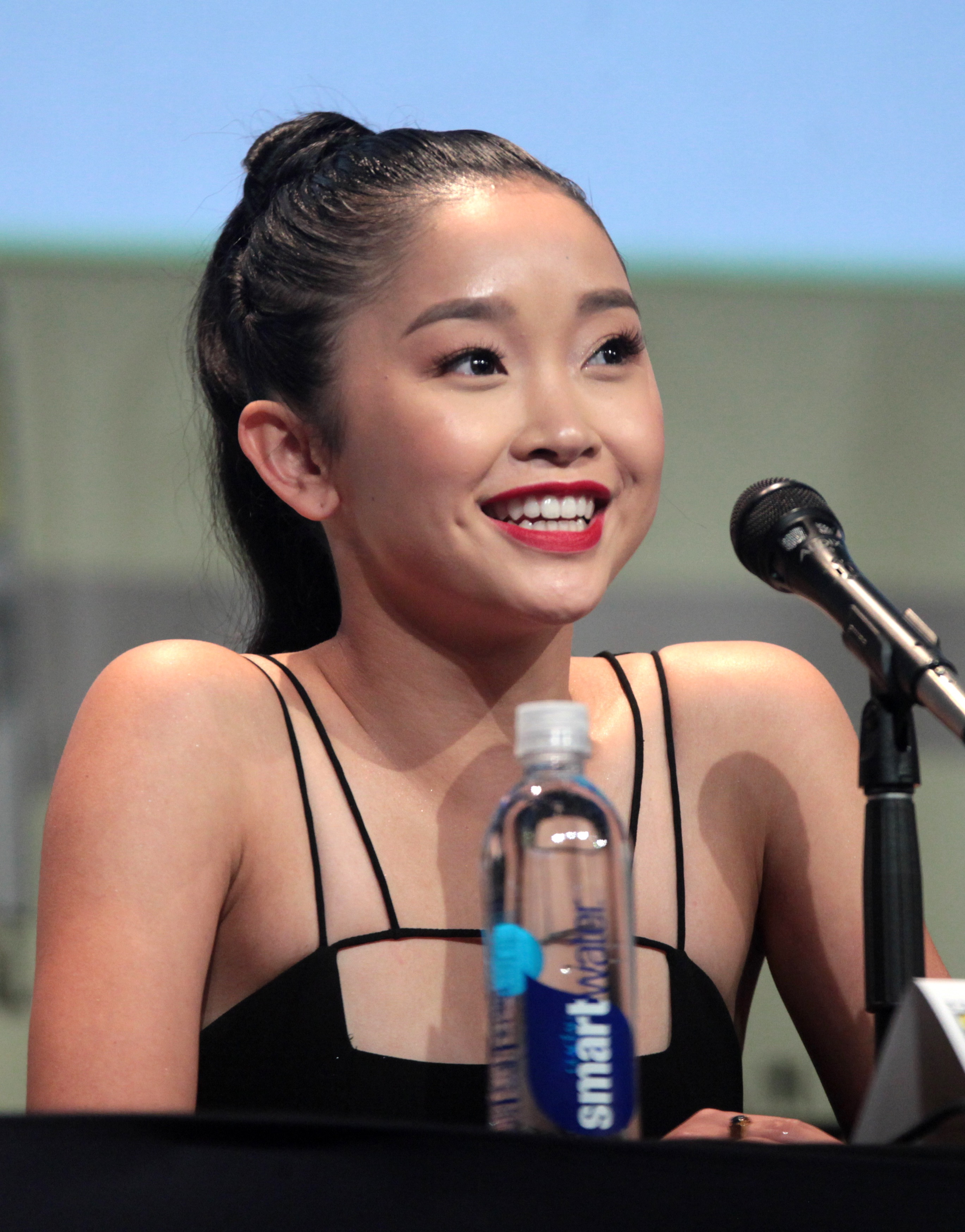 Actress Lana Condor at the San Diego Comic-Con International for X-Men: Apocalypse, July 11, 2015